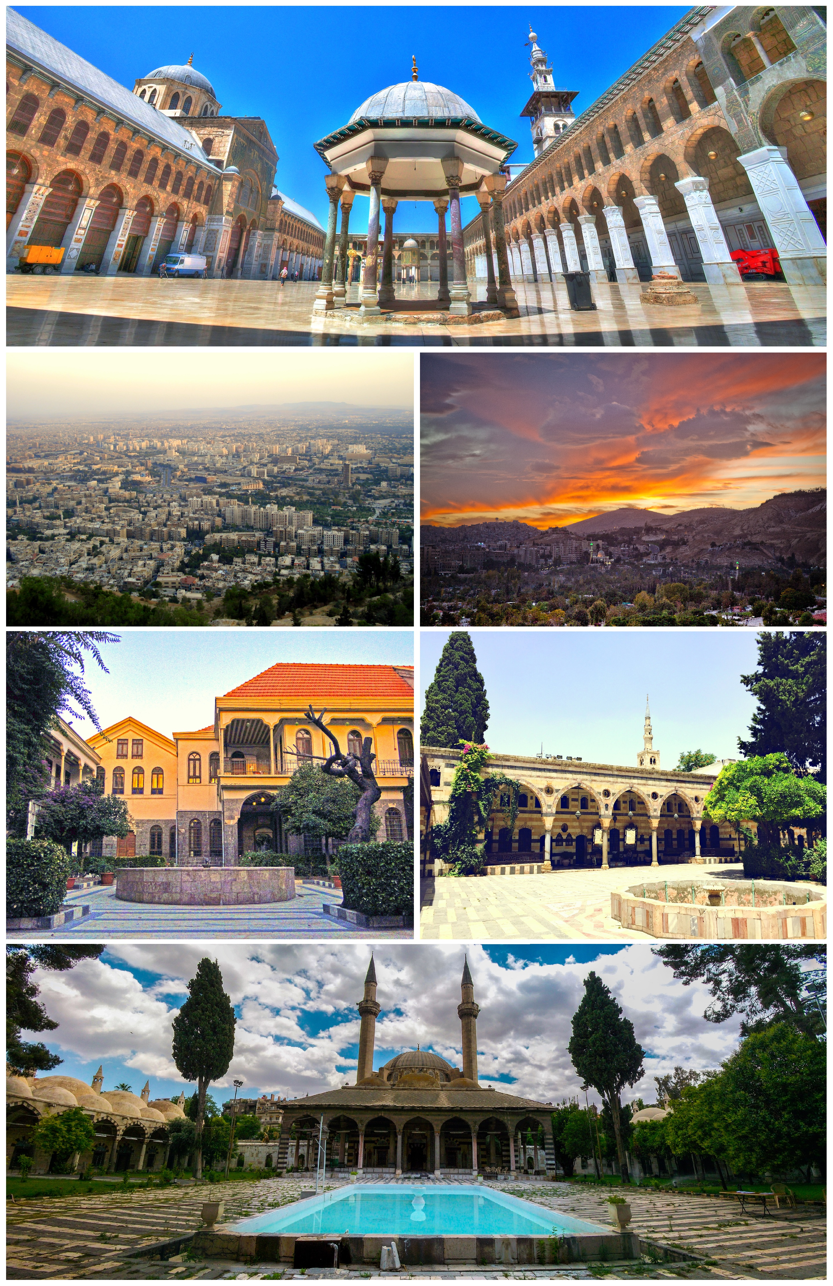 Damascus landmarks